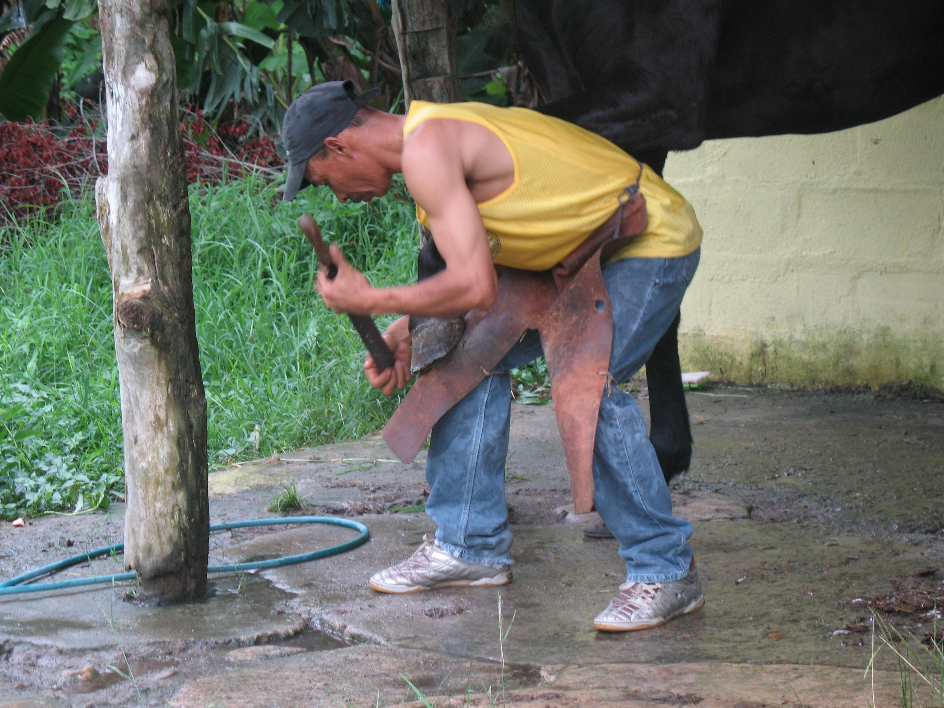 Panamanian farrier at work